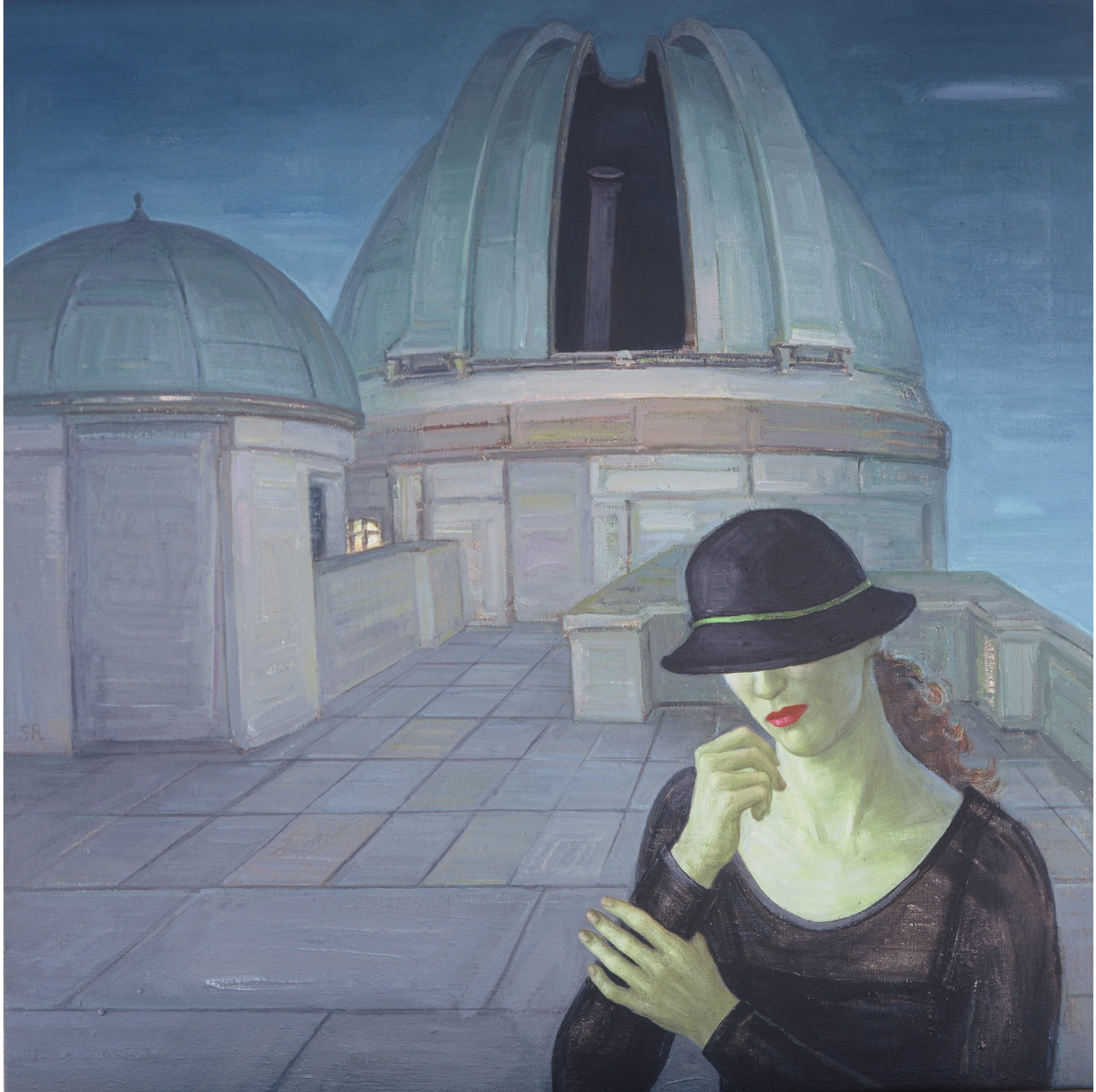 "Die Besucherin", Sandra Rienäcker, 2009, Oil on canvas, 80 x 80 cm. Lonely visitor to a nocturnal observatory: A romantic version of the connection, or conjunction of astronomy and art.